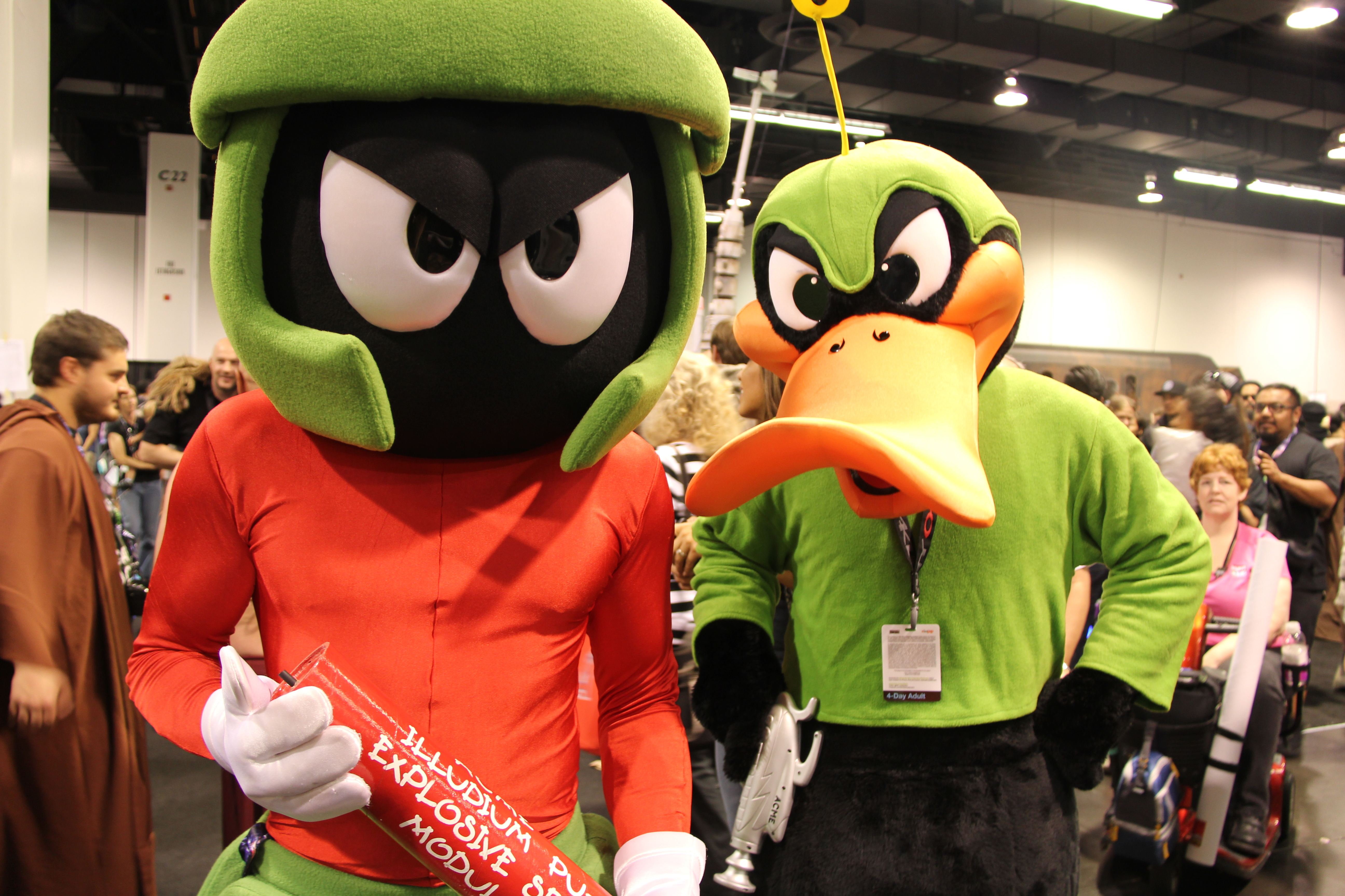 WB characters at the wrong convention. It's Marvin the Martian [left] and Duck Dodgers [right] Star Wars Celebration in Anaheim, April 2015.